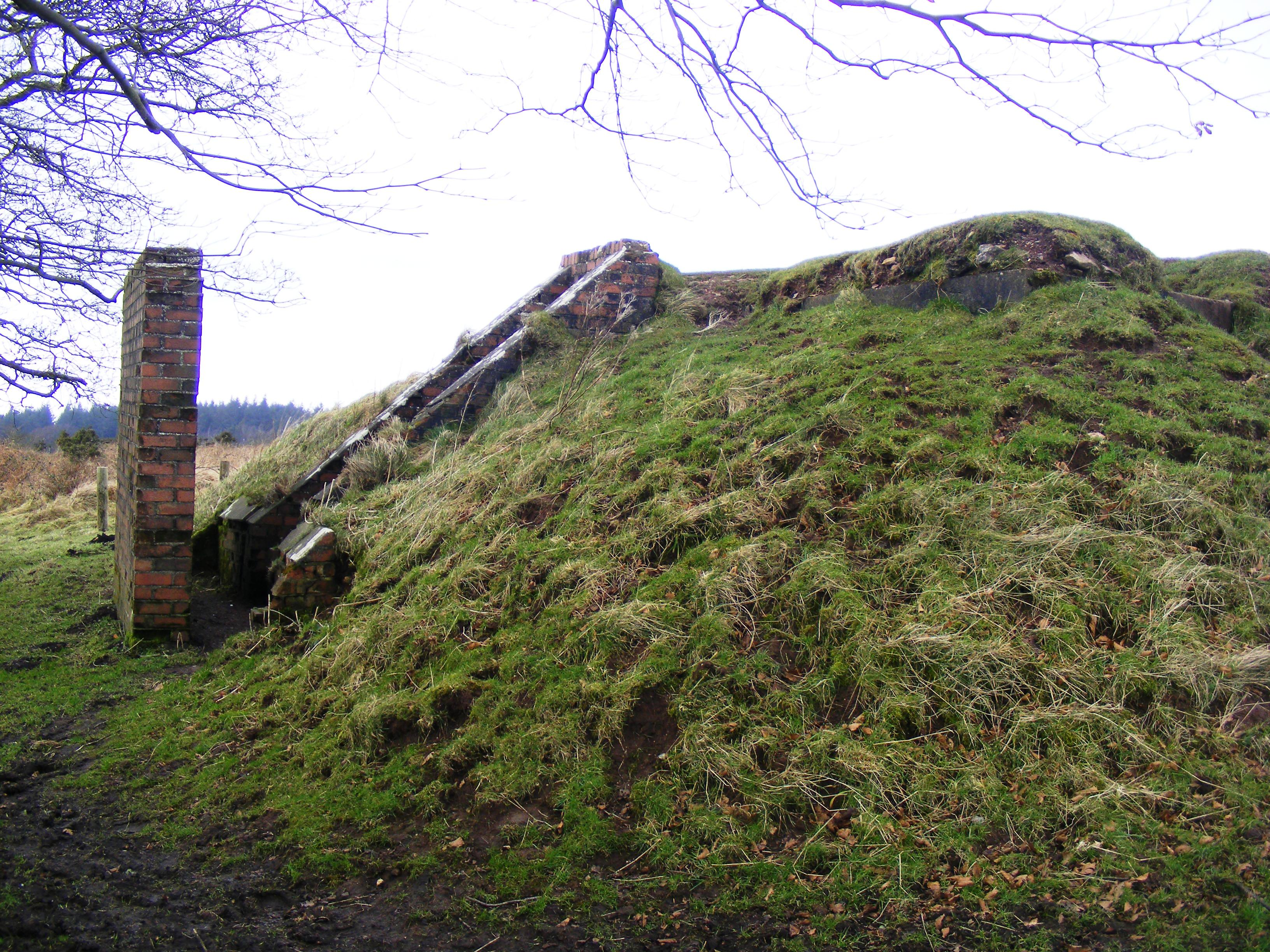 World War II bunker on Black Down, Somerset, above Tynings farm